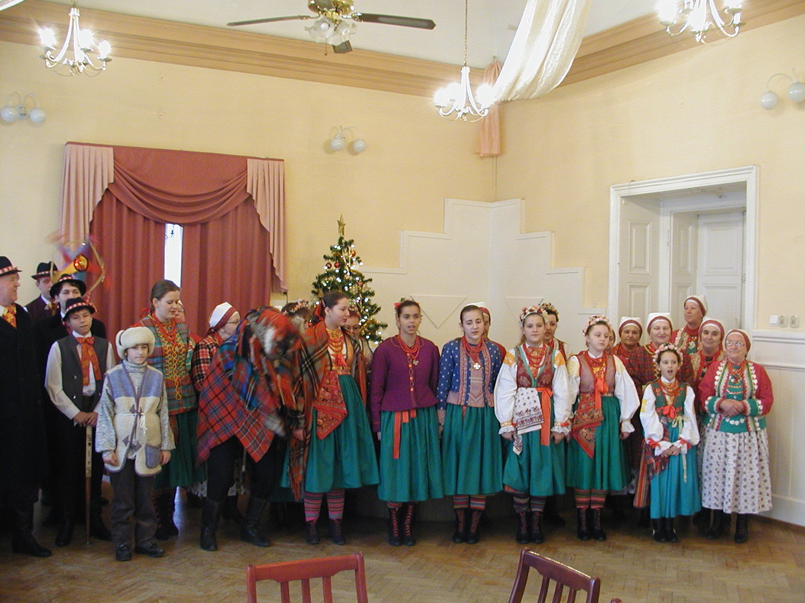 Christmas performance of Regional Wilamowice Song and Dance Ensemble Ślůnski: Regjůnalno Skupina Śpjywu a Tańcowańo "Wilamowice" śpjywo kolyndy